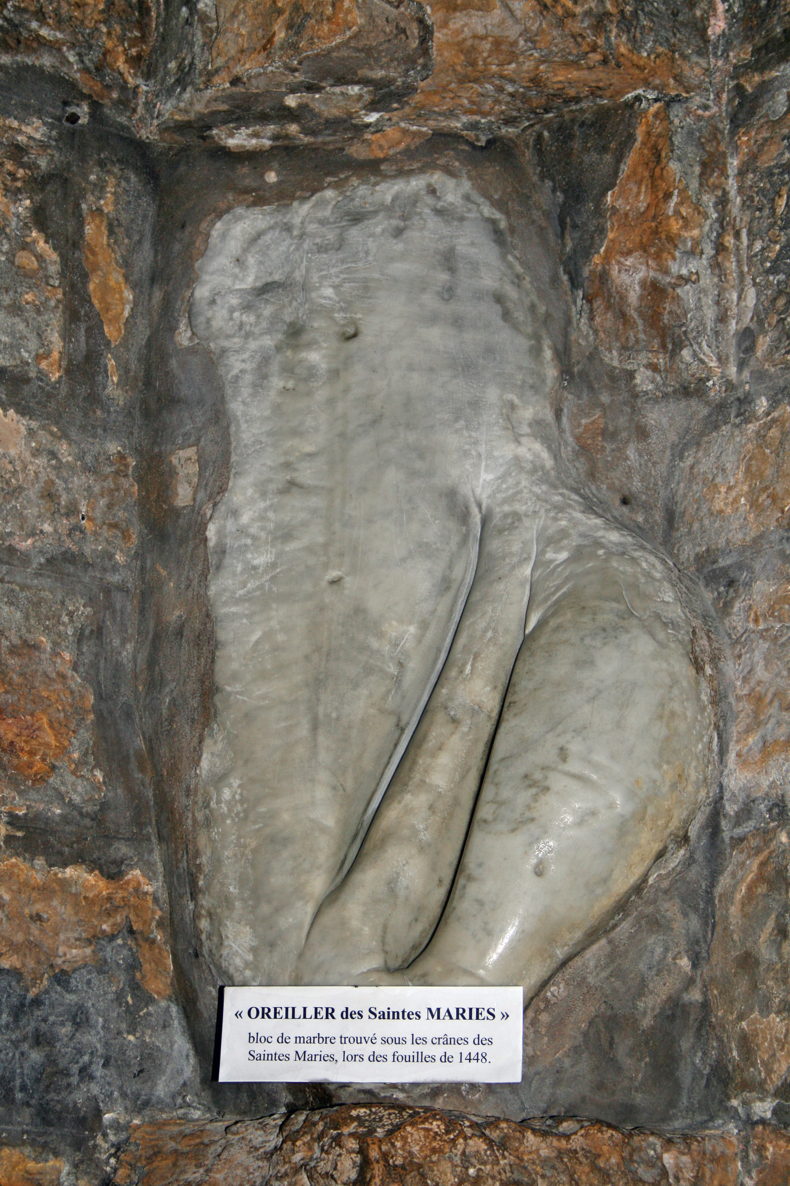 Pilow oh the Holy Mary